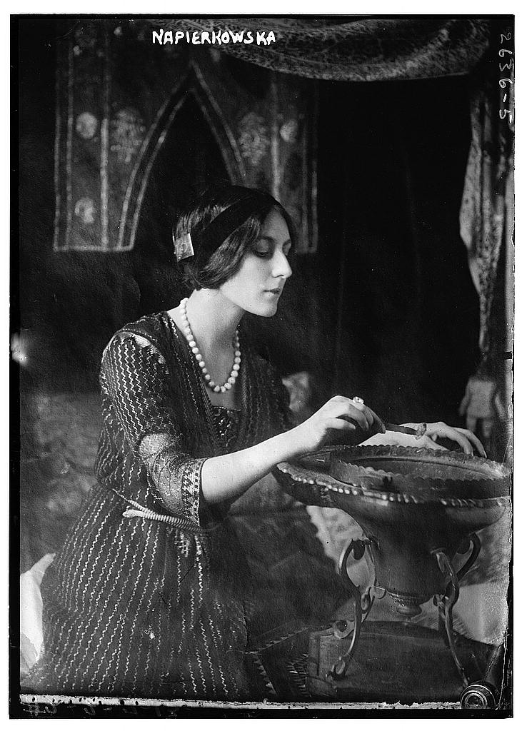 Bain News Service,, publisher. Napierkowska [no date recorded on caption card] 1 negative : glass ; 5 x 7 in. or smaller. Notes: Title from unverified data provided by the Bain News Service on the negatives or caption cards. Forms part of: George Grantham Bain Collection (Library of Congress). Format: Glass negatives. Repository: Library of Congress, Prints and Photographs Division, Washington, D.C. 20540 USA, General information about the Bain Collection is available at Persistent URL: Call Number: LC-B2- 2636-5